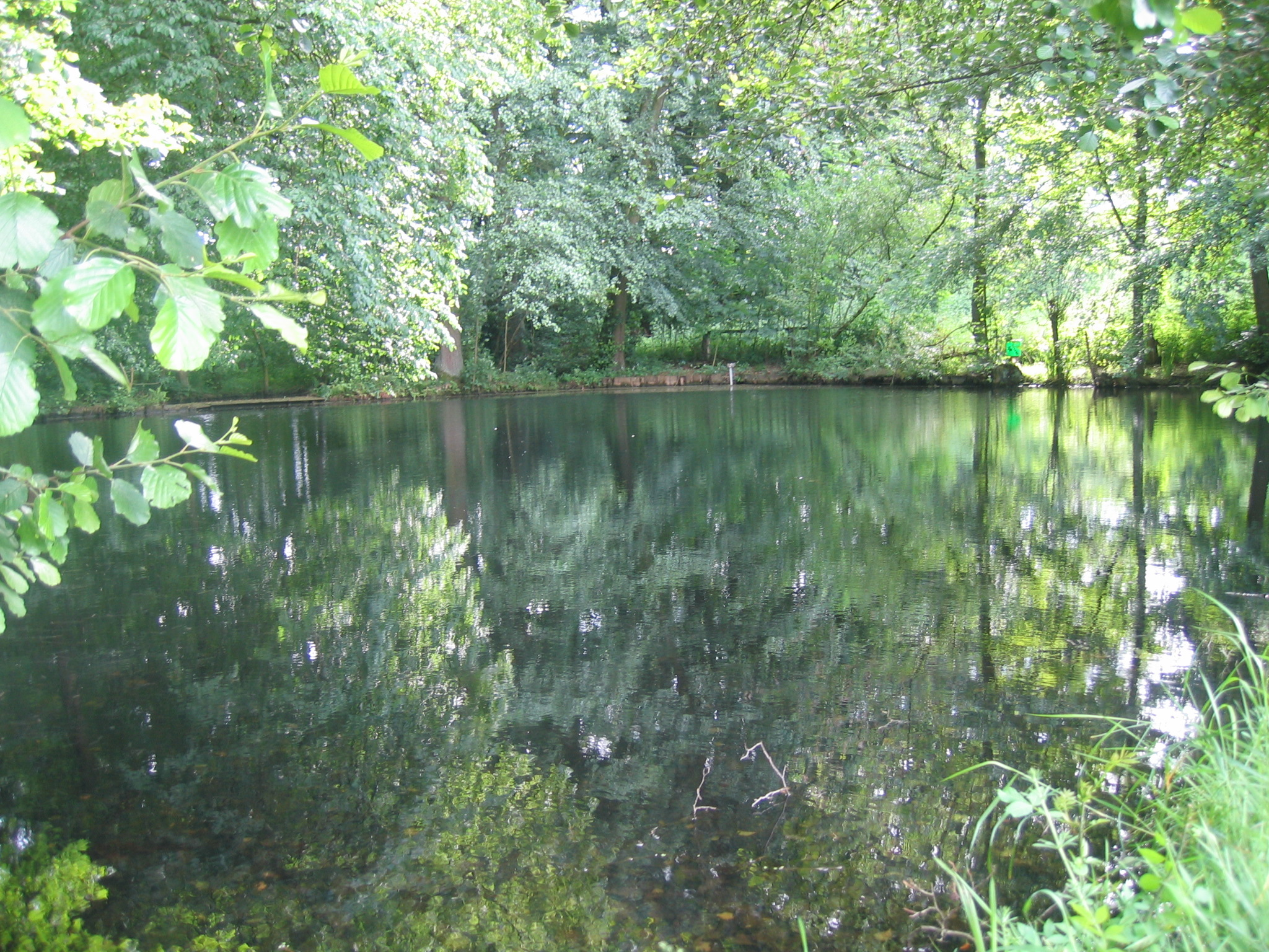 Old public swimming pool in Rödinghausen, District of Herford, North Rhine-Westphalia, Germany.